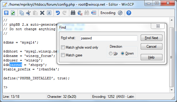 WinSCP 5.5.2 Internal editor window screenshot (Windows 7)